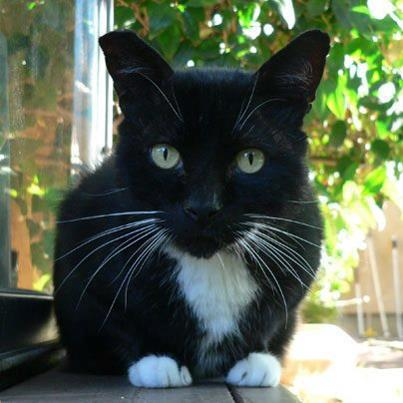 Mr. Nuts relaxing at his home in Fremont, CA.